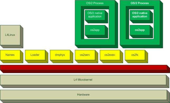 osFree architecure